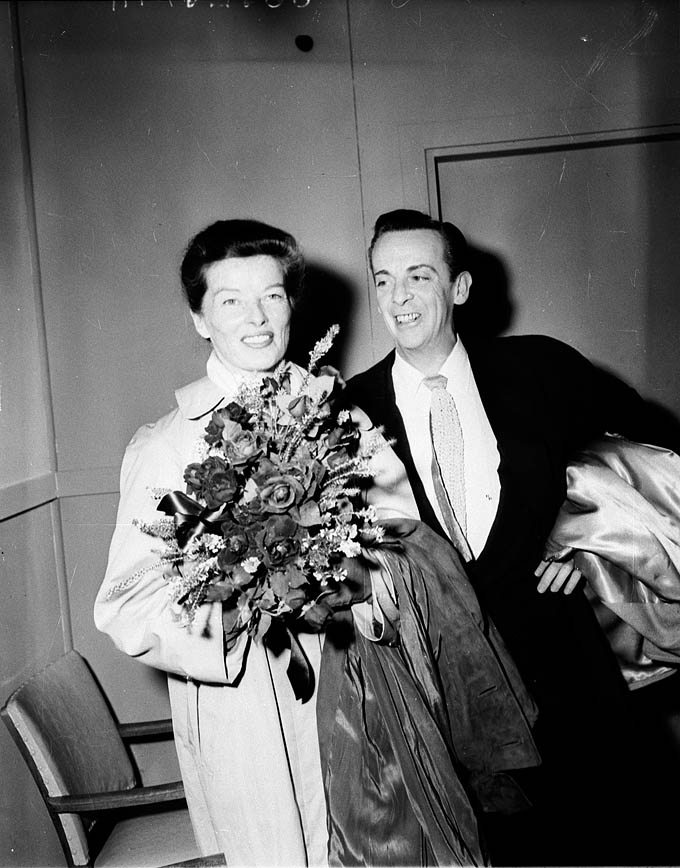 Format: Photograph Notes: Find more detailed information about this photograph: .au/item/itemDetailPaged.aspx?itemID=69802 Search for more great images in the State Library's collections: .au/search/SimpleSearch.aspx From the collection of the State Library of New South Wales